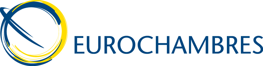 This is a logo for EUROCHAMBRES.